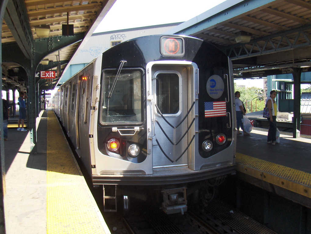 R143 M train running its Weekend Shuttle service at Broadway/Myrtle